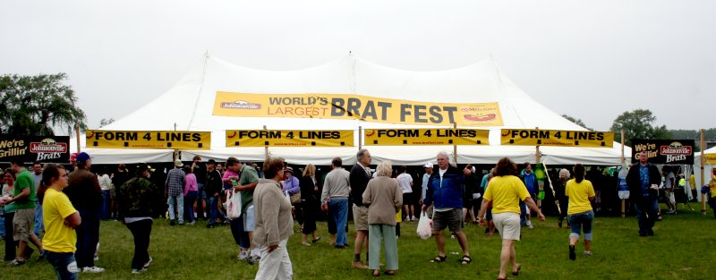 The main serving tent for the 2007 Brat Fest in Madison, Wisconsin